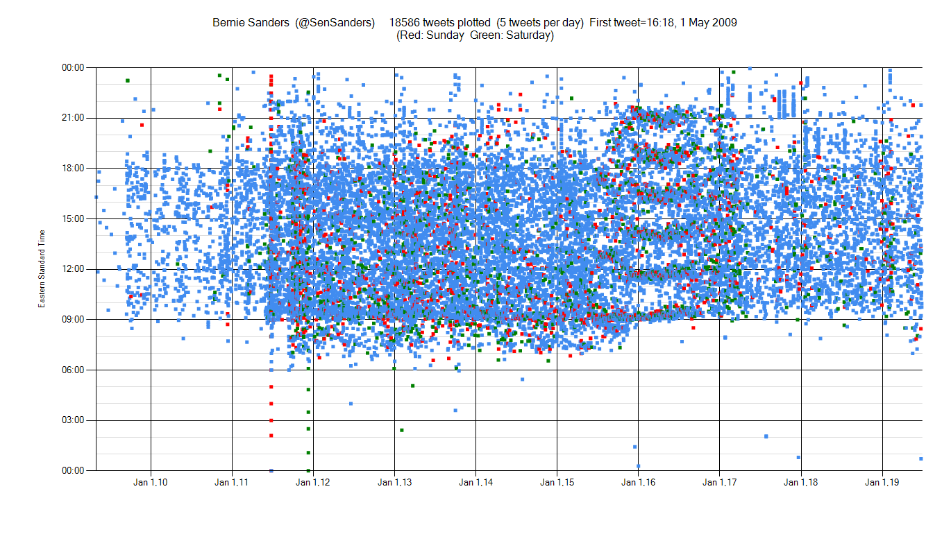 Twitter activity of Bernie Sanders from his first tweet in November 2010 to September 2017. Retweets are not included.